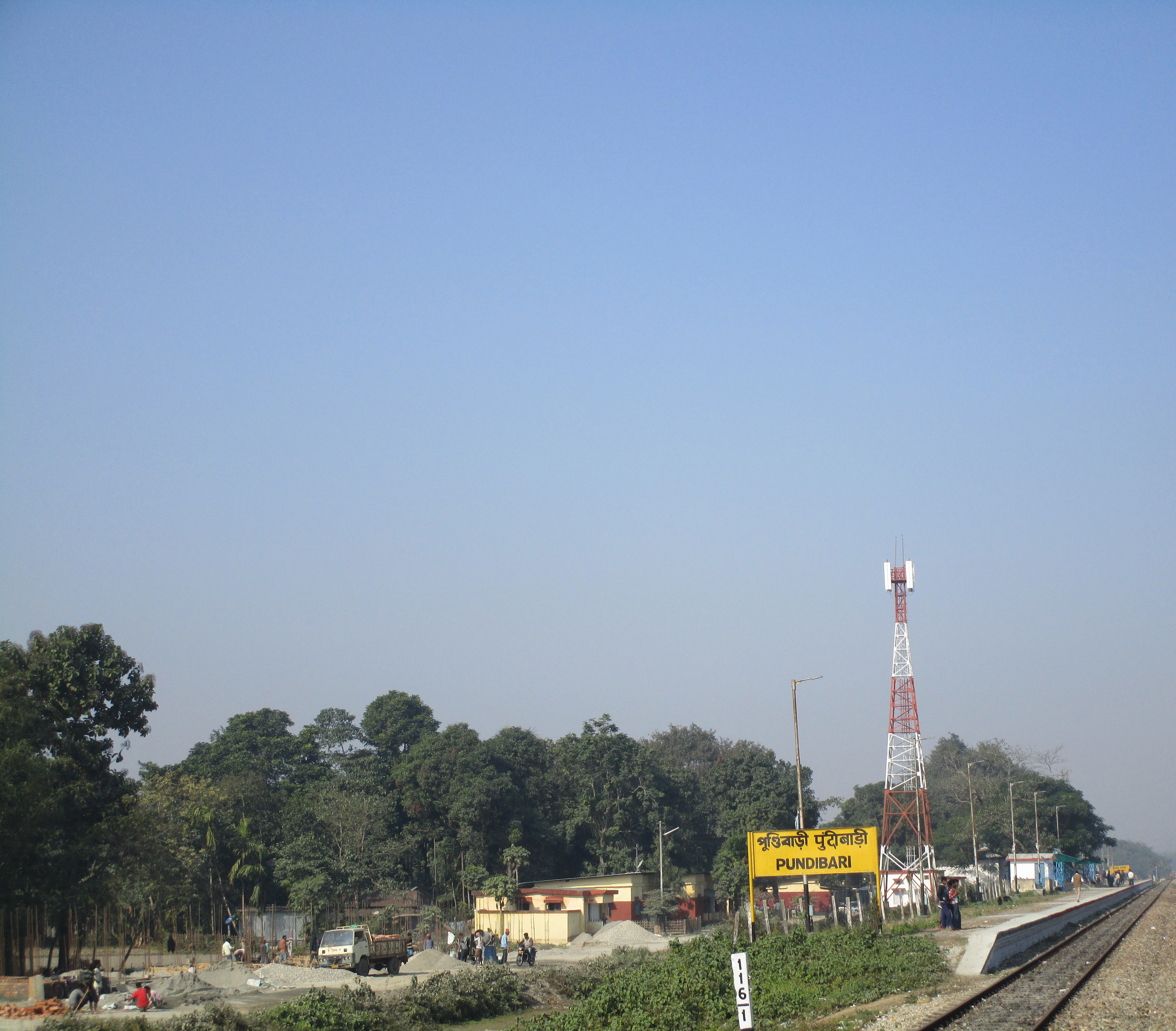 Pundibari Station Nameplate at Siliguri Rd, Bag Bhandar, West Bengal.